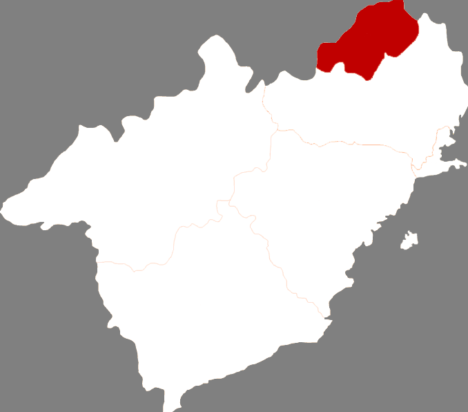 Location of Nanpiao district in Huludao City, China